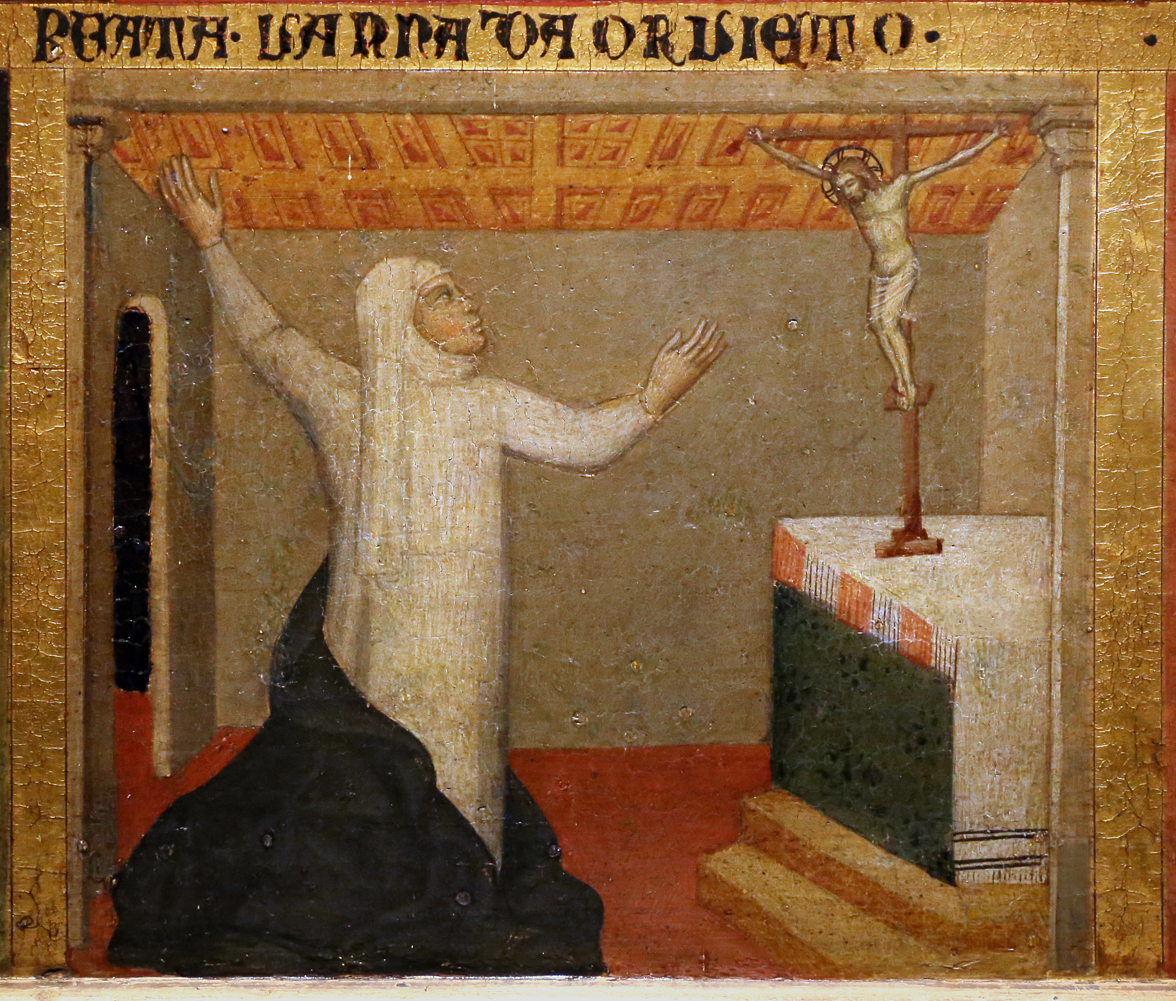 Catherine of Siena and Four Dominican Female Blessed by Andrea di Bartolo